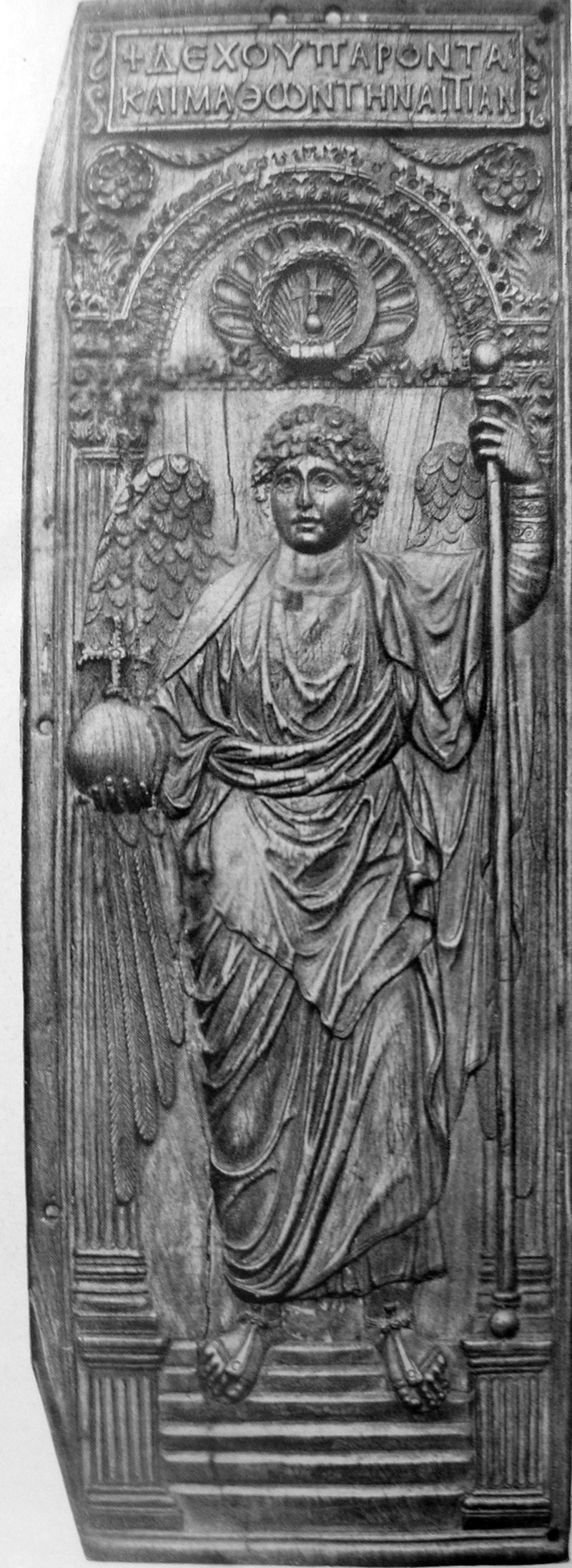 Part of diptych with an archangel. 6th c. AD. London